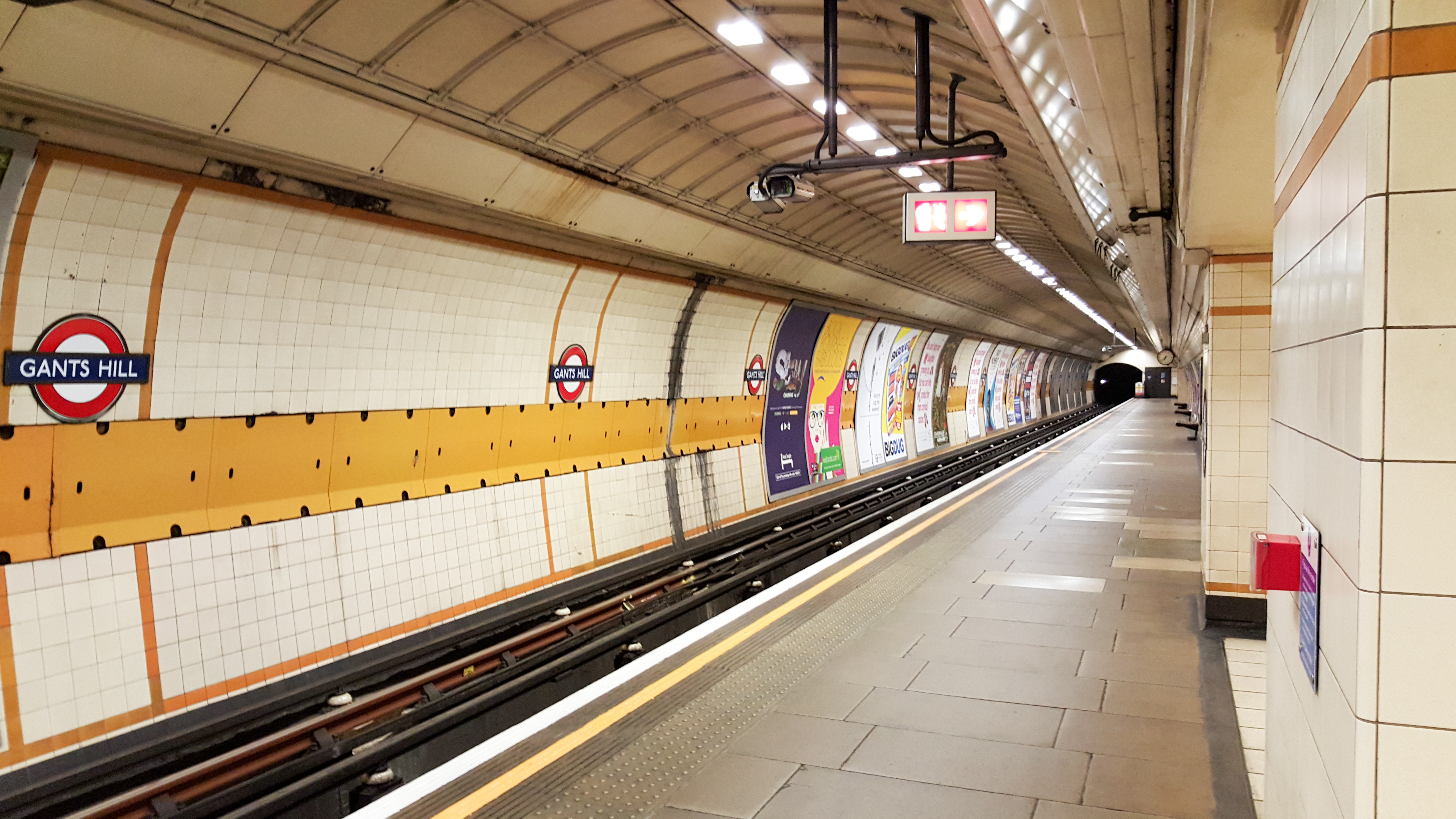 Gants Hill tube station, Westbound platform, looking West